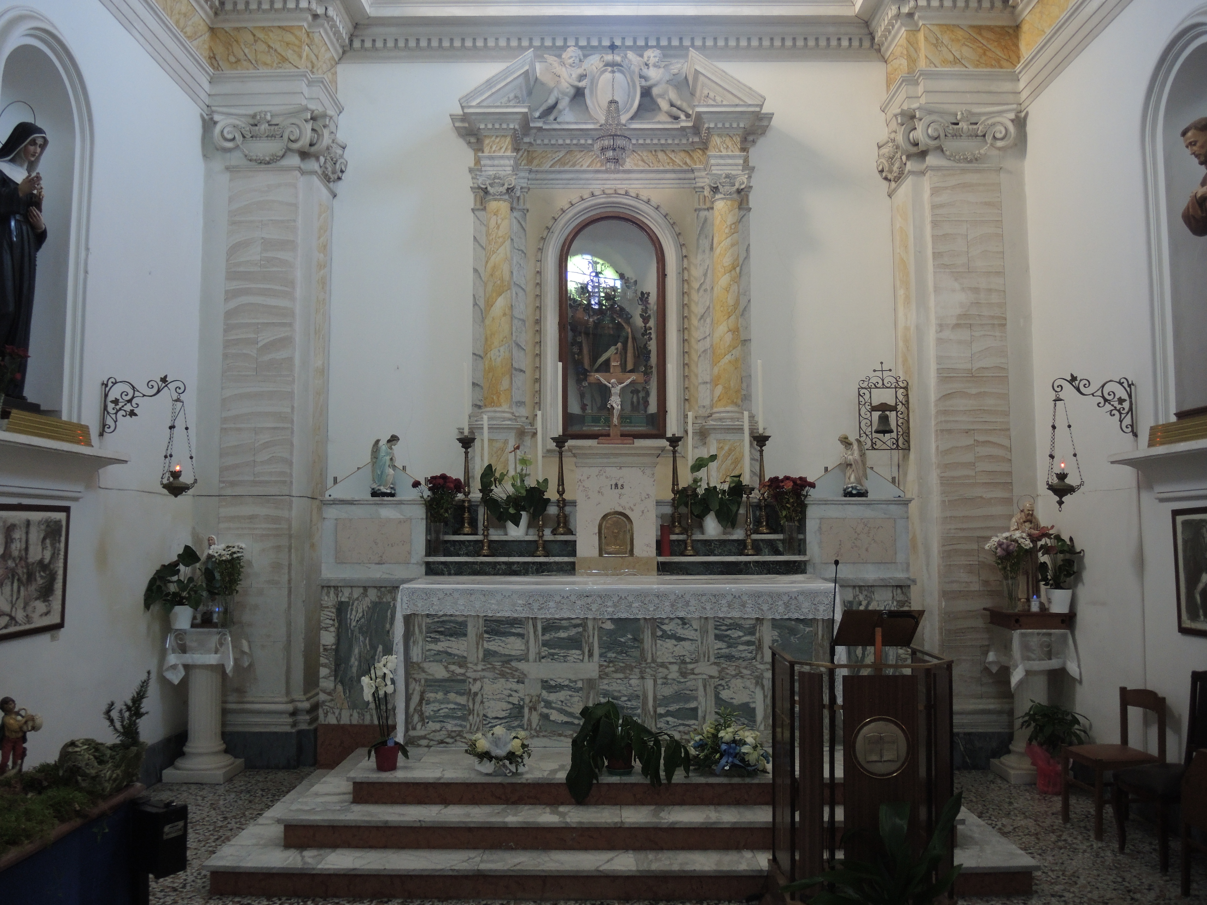 Tornareccio: Chiesa di San Rocco